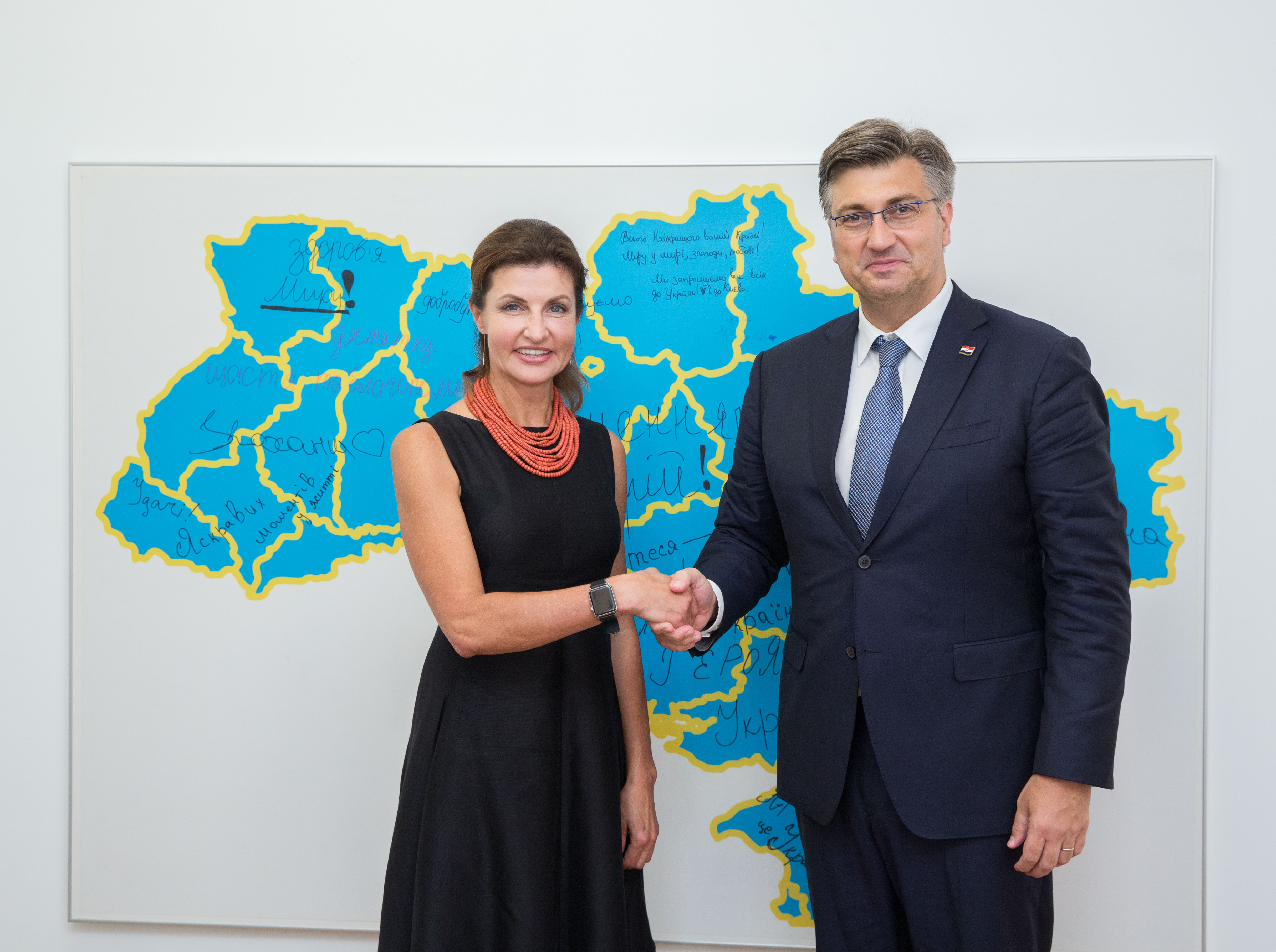 Working visit of Maryna Poroshenko to the Republic of Croatia